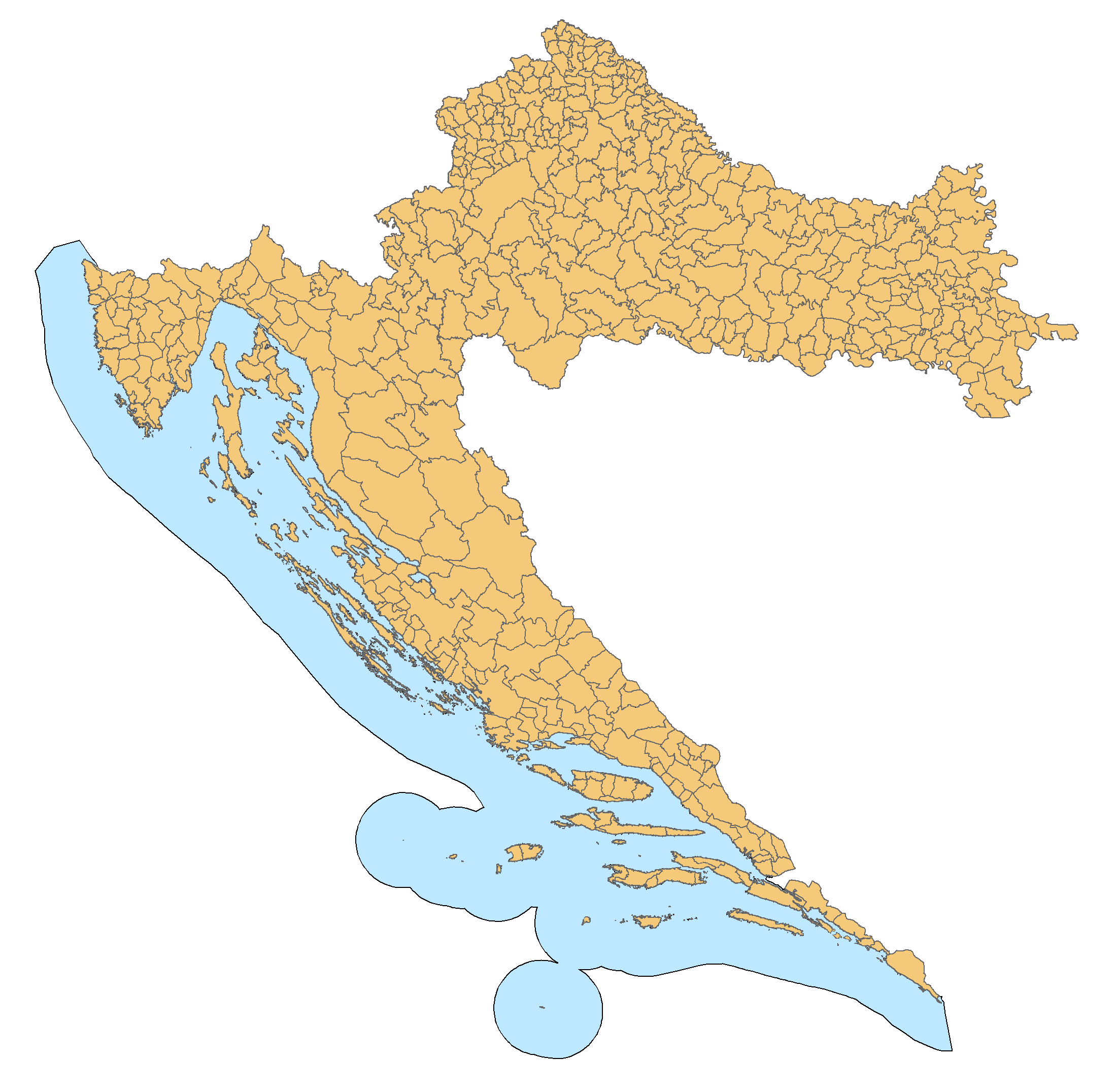 Map of Croatia - divided onto cities and municipalities